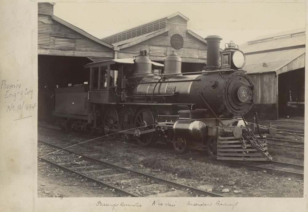 Engine 281 in the locomotive sheds at Ipswich Class A14, passenger locomotive and coal wagon.